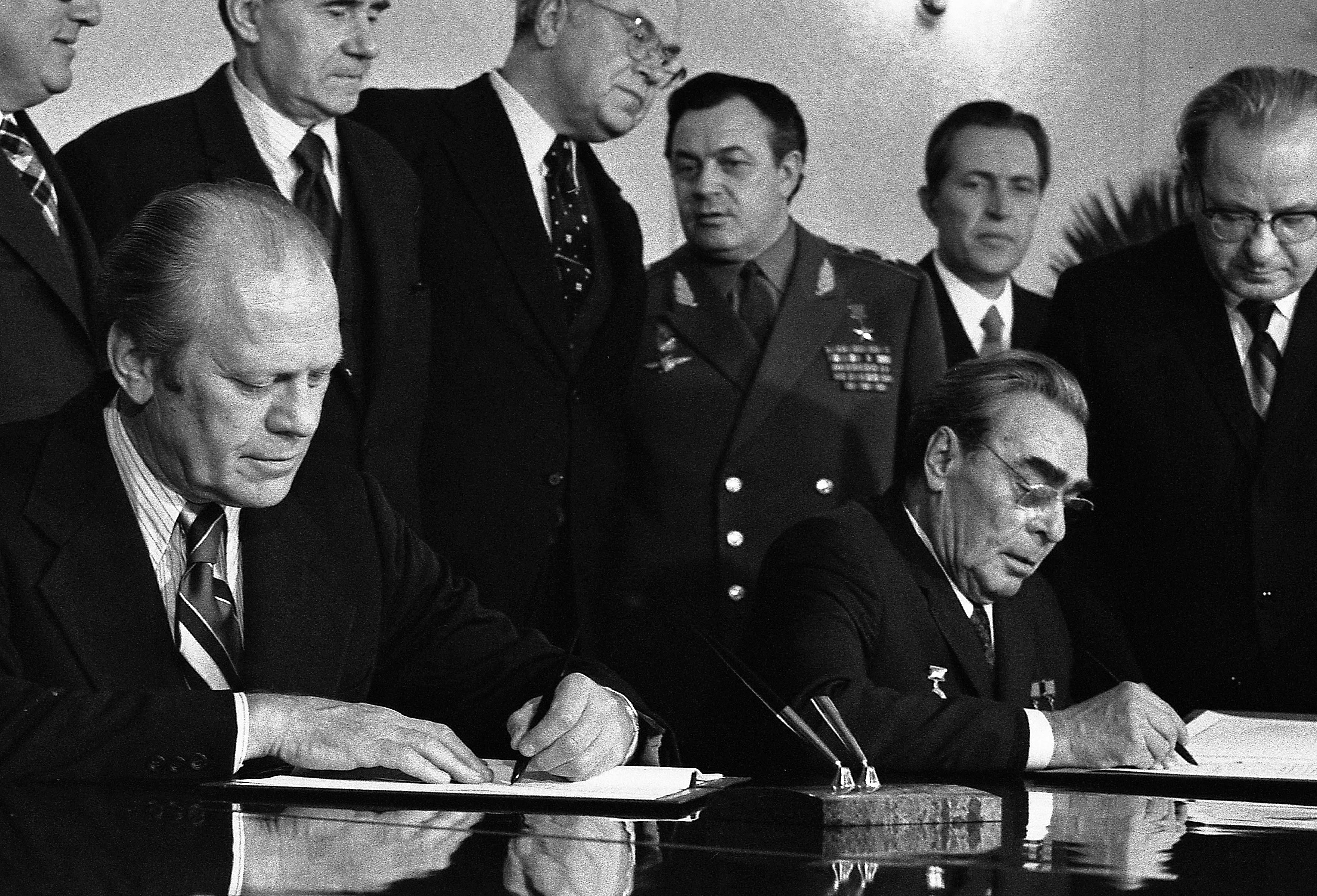 President Gerald Ford and Soviet General Secretary Leonid Brezhnev sign a Joint Communiqué following talks on the limitation of strategic offensive arms. The document was signed in the conference hall of the Okeansky Sanitarium, Vladivostok, USSR.